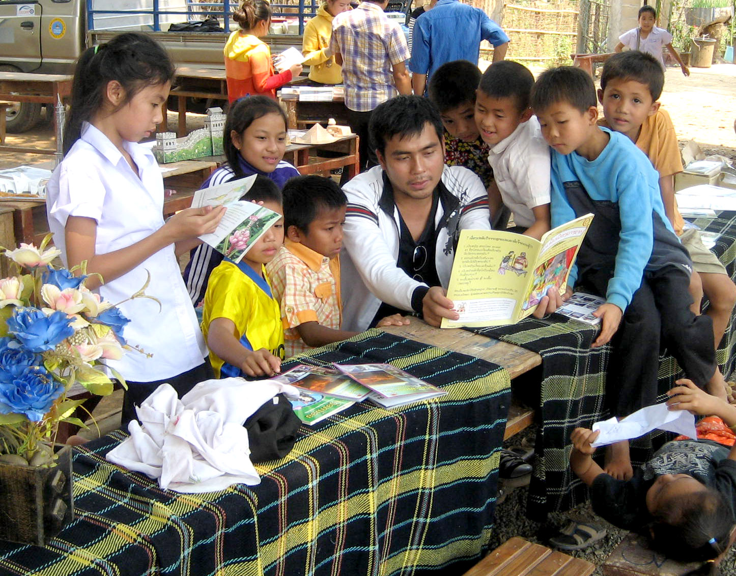 Reading aloud is one way that Big Brother Mouse, a literacy project in Laos, gets children excited about reading. This photo shows Khamla Panyasoukm, the director of the project, reading to children who lingered on after the end of a local reading festival.